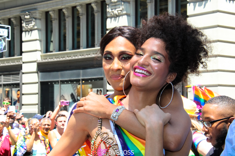 New York Pride 50 - 2019-133